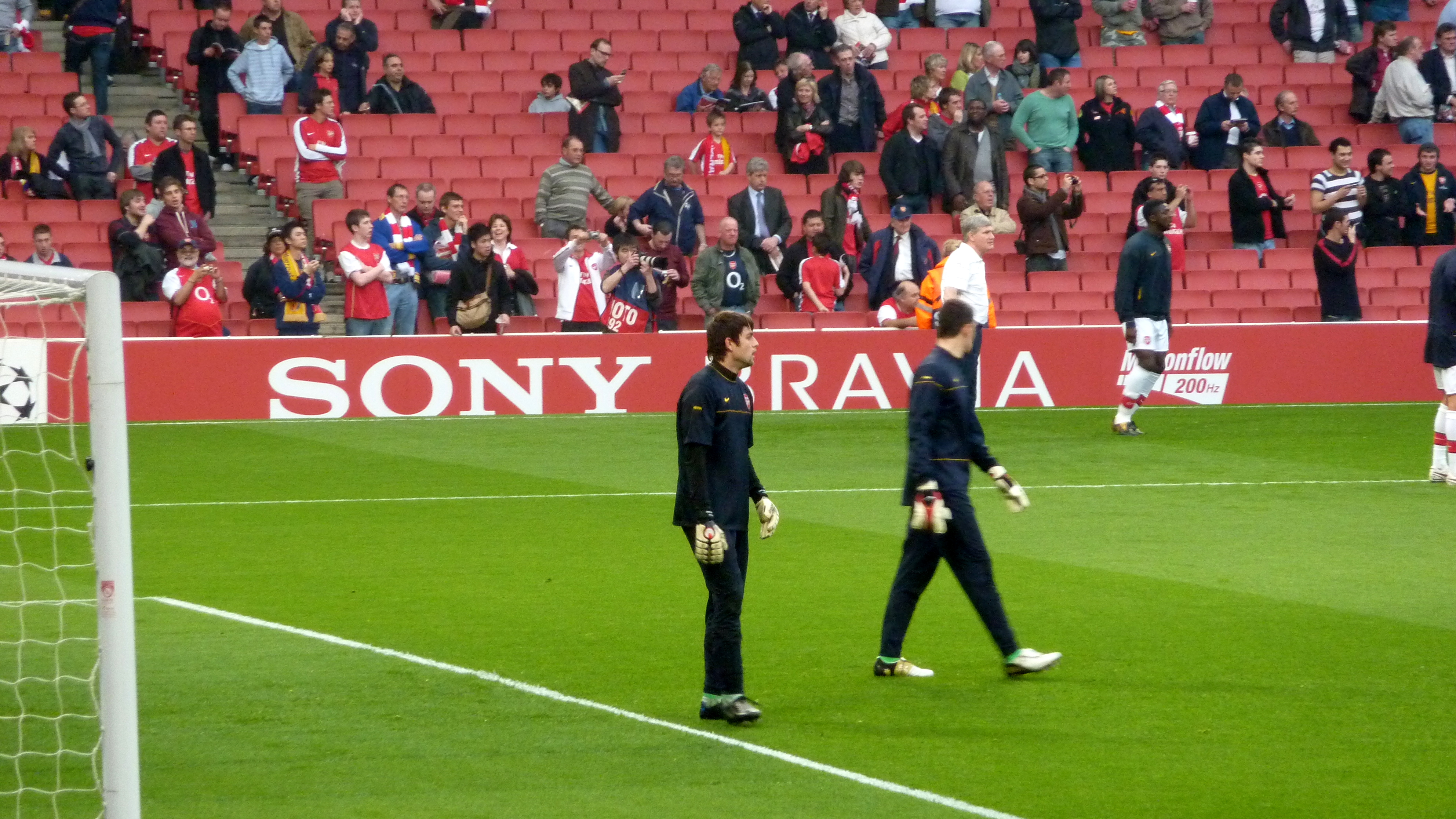 Łukasz Fabiański before Arsenal-Villarreal (15th April 2009).